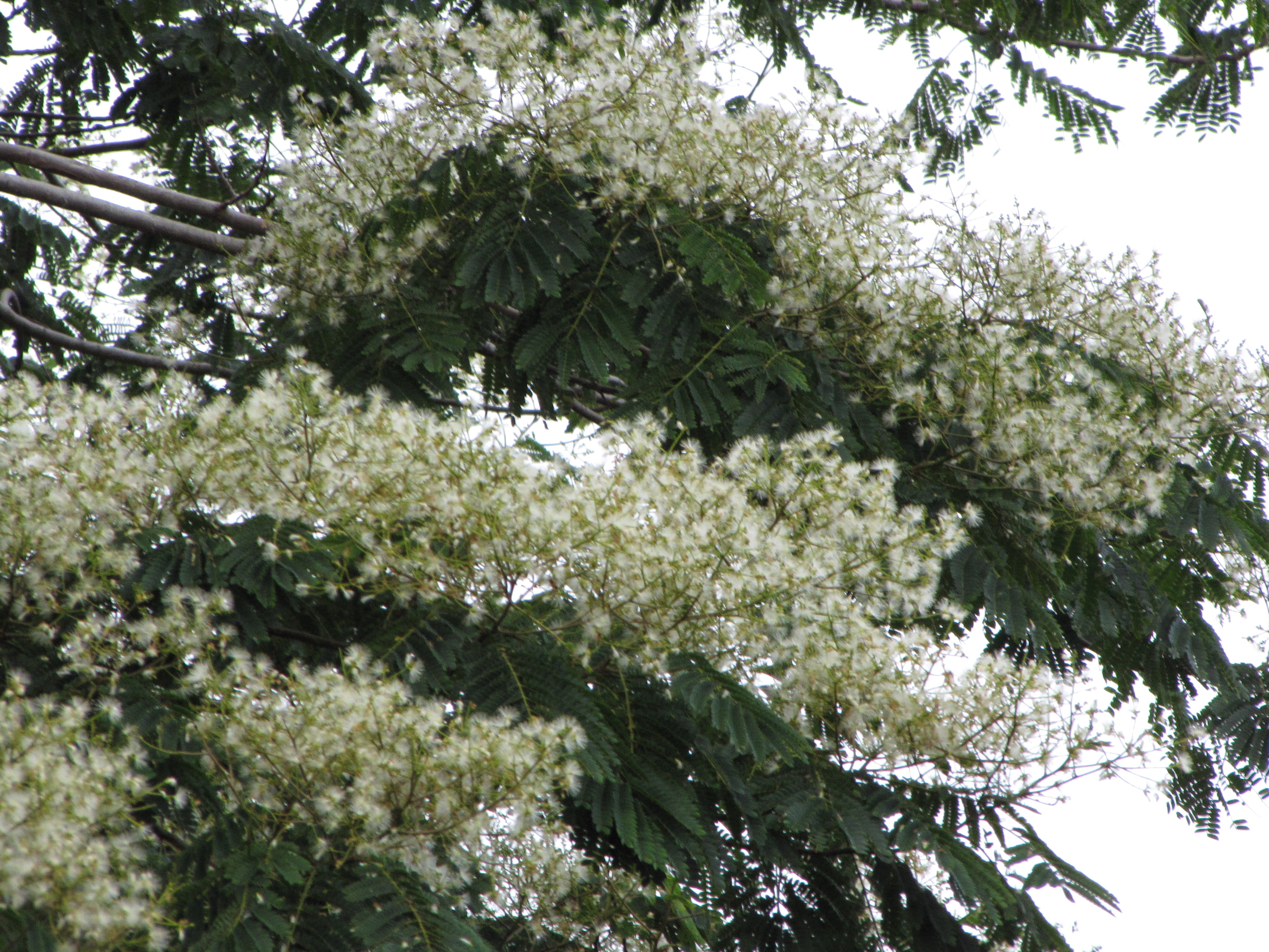 Falcataria moluccana (Moluccan albizia) Flowers at Kahakuloa, Maui, Hawaii. July 14, 2009 #090714-2932 Image Use Policy Also known as Paraserianthes falcataria and Albizia falcataria.